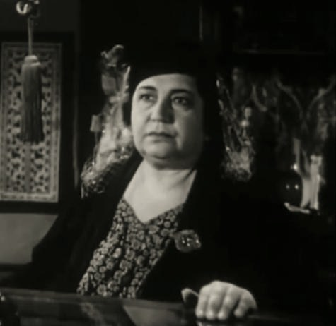 Nina Koshetz in The Chase (1946) - cropped screenshot